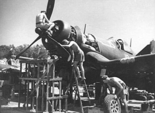 Ground staff personnel of No. 3 Servicing Unit, Headquarters, Royal New Zealand Air Force, overhauling a Vought F4U-1 Corsair fighter of No. 16 Squadron on Green Island, 21 December 1944.